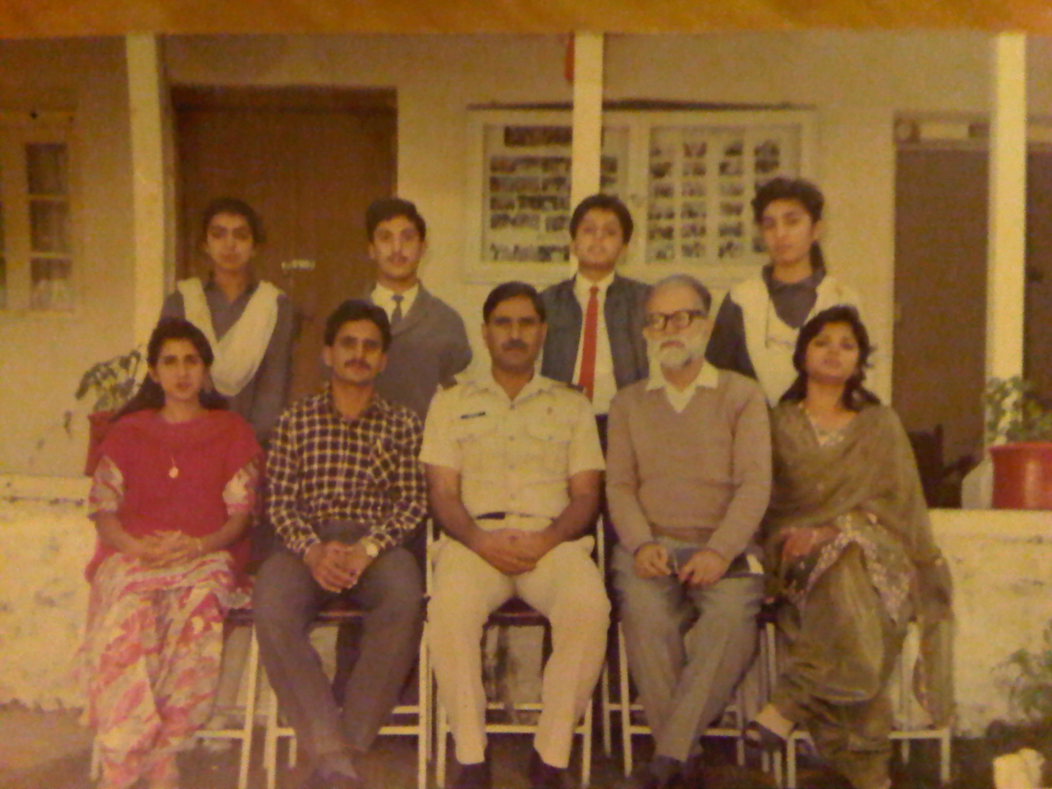 Muztar Abbasi when he was teaching at PAF Lower Topa,1989.